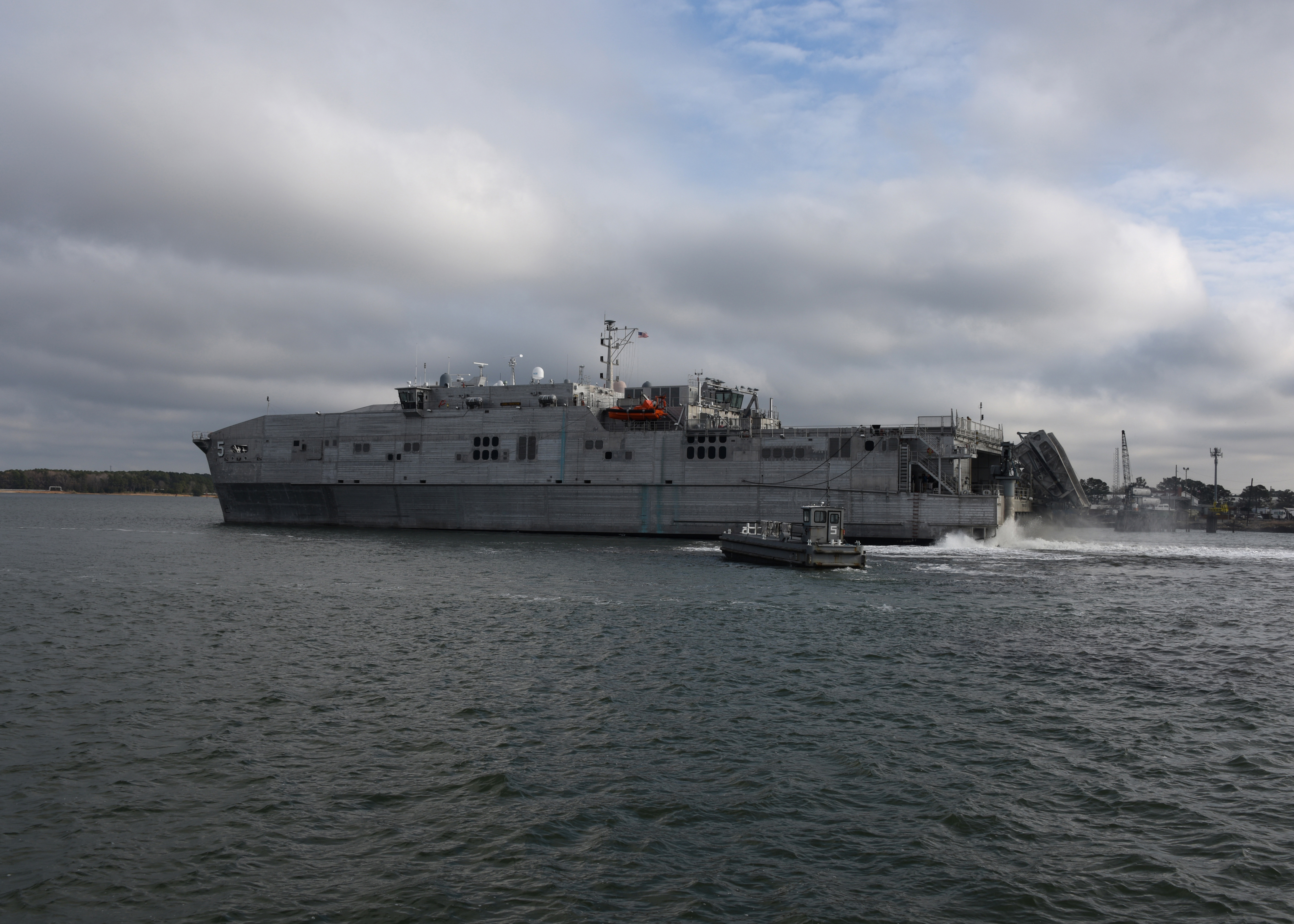 161220-N-OH262-162 VIRGINIA BEACH, Va. (December 20, 2016) Military Sealift Command's expeditionary fast transport ship, USNS Trenton (EPF 5) gets underway from Joint Expeditionary Base Little Creek-Fort Story, Dec. 20. Trenton depa Virginia to begin its first forward deployment. Trenton deployed to support military operations in the U.S. Sixth Fleet's area of operations. (U.S. Navy photograph by Bill Mesta/released)